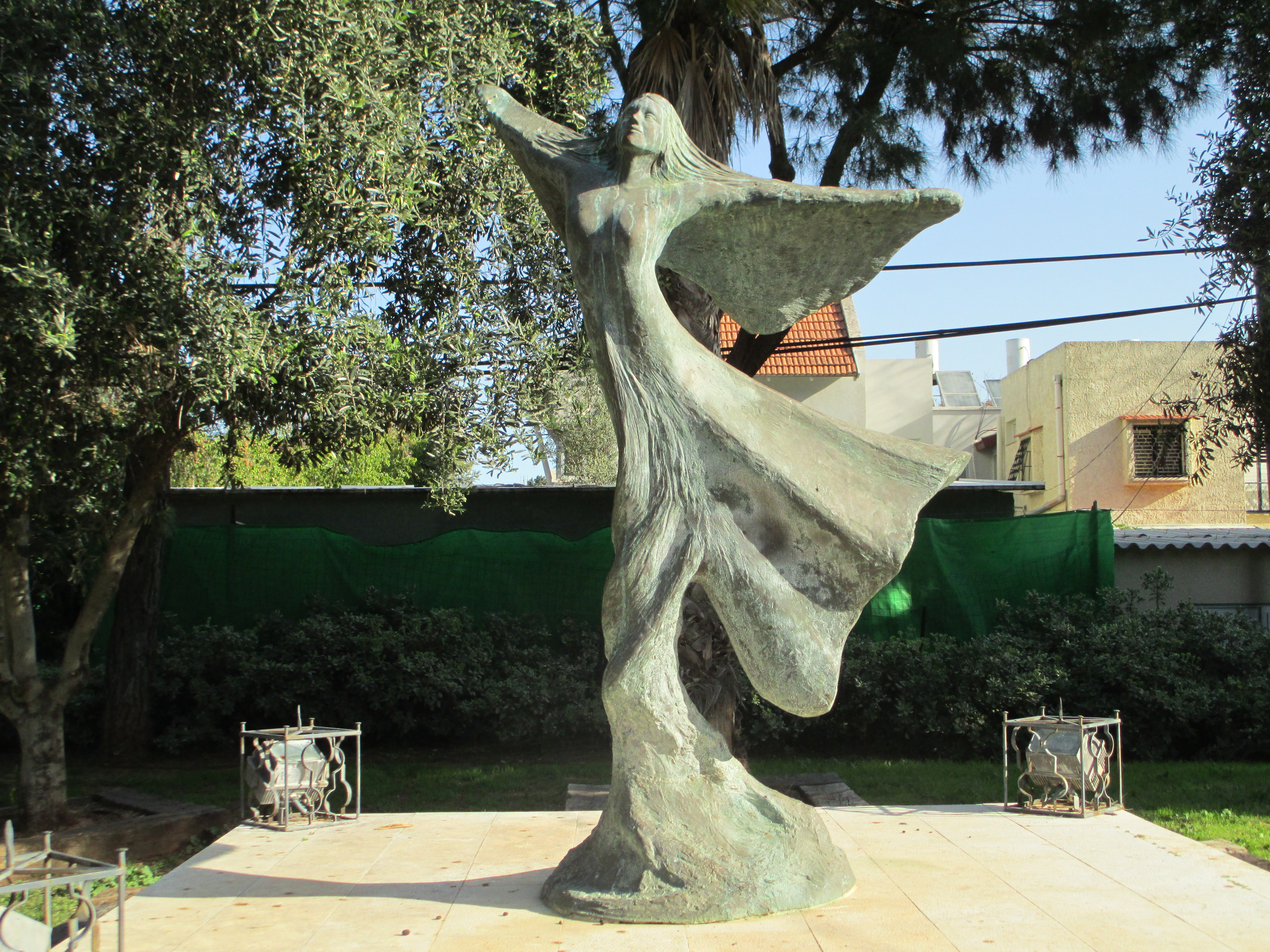 Noa Urbach memorial in Kfar Saba